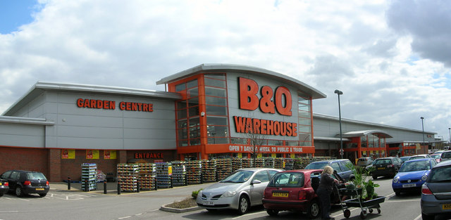 Grimsby B & Q Busy with pre-Easter shoppers.